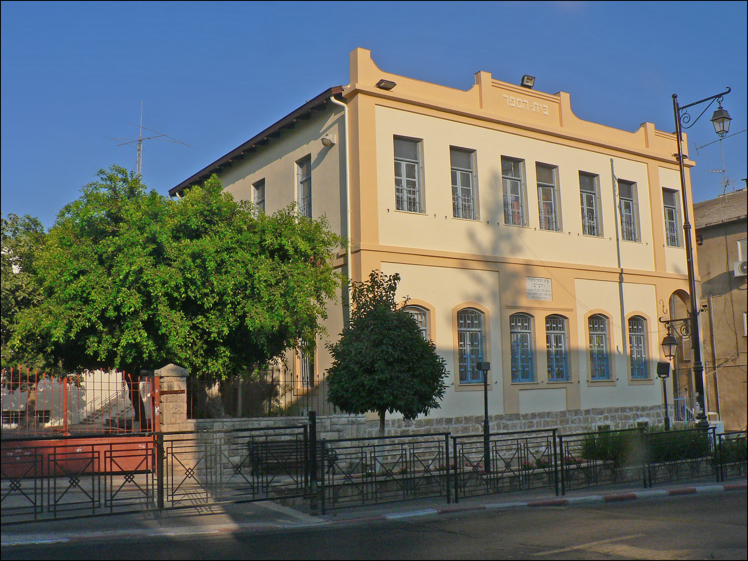 Haviv elementary school, Rishon LeZion, Israel